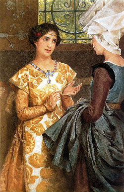 Queen Katherine of France